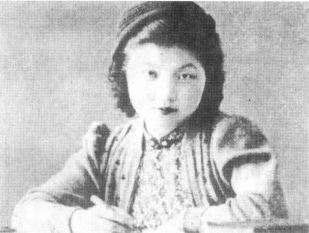 Chang Ya-juo, Chiang Ching-kuo's secretary and mother of his illegitimate twin sons